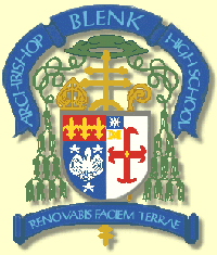 Archbishop Blenk Highschool Coat of Arms